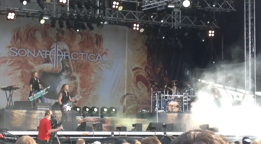 Sonata live 2012